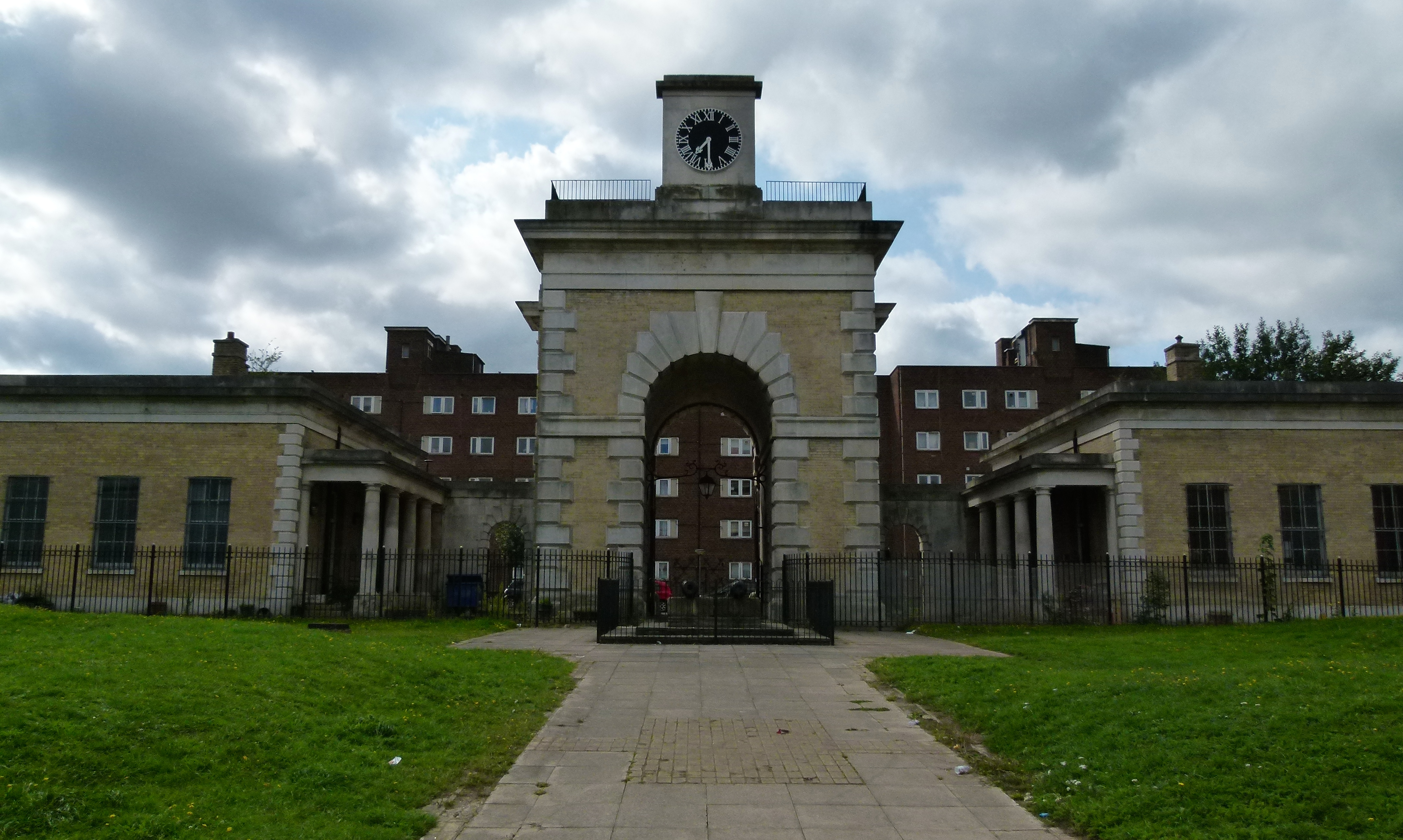 View from the east of the gate house of the former Cambridge Barracks in Frances Street, Woolwich, South East London.